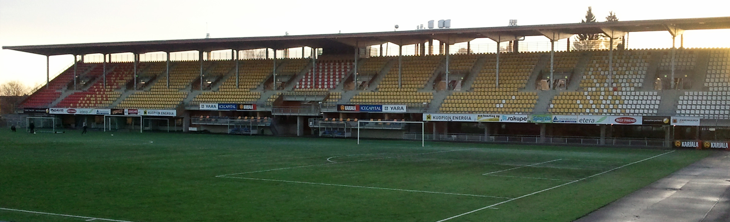 Kuopion keskuskenttä (formerly Magnum Areena) in Kuopio, Finland.